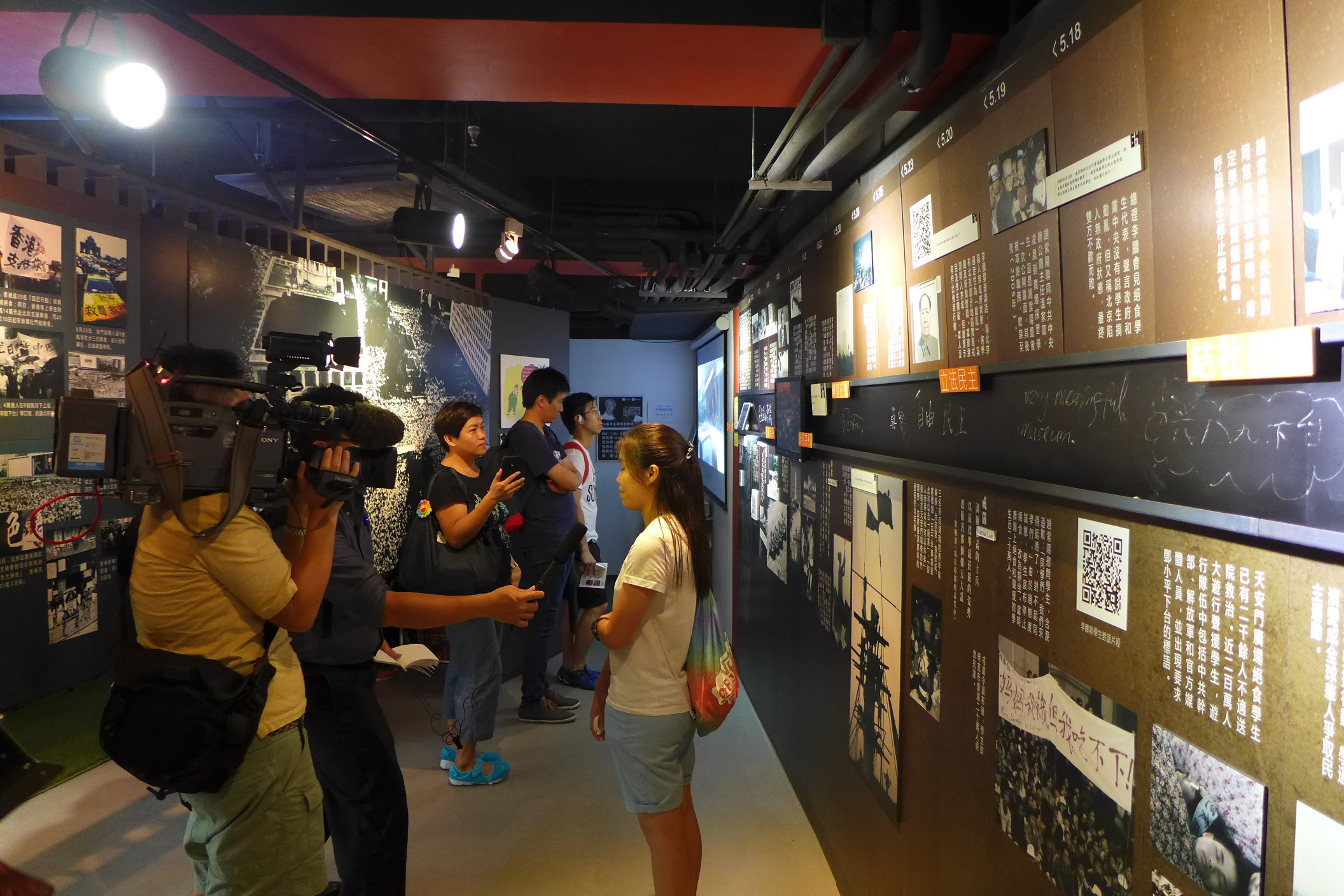 June 4th Museum Before close